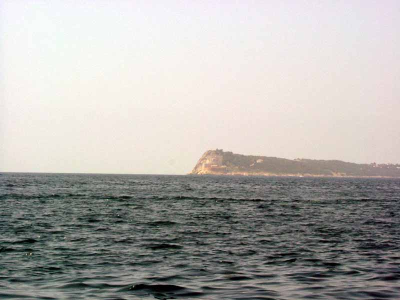 The cape Oštro on Prevlaka Peninsula at the entrance to Boka Kotorska, Montenegro (border line between Montenegro and Croatia) Photo by: Aleksandar Bogicevic